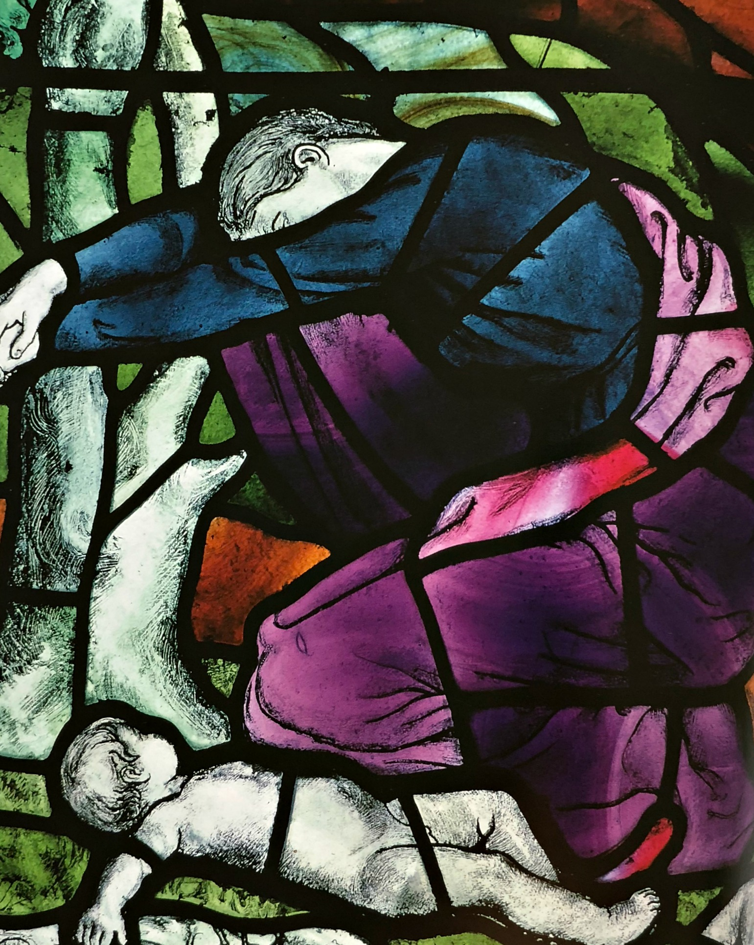 detail of East window, Holy Innocents Church, Lamarsh, Essex